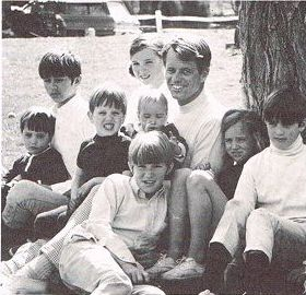 1968 California ROBERT F. KENNEDY flyer